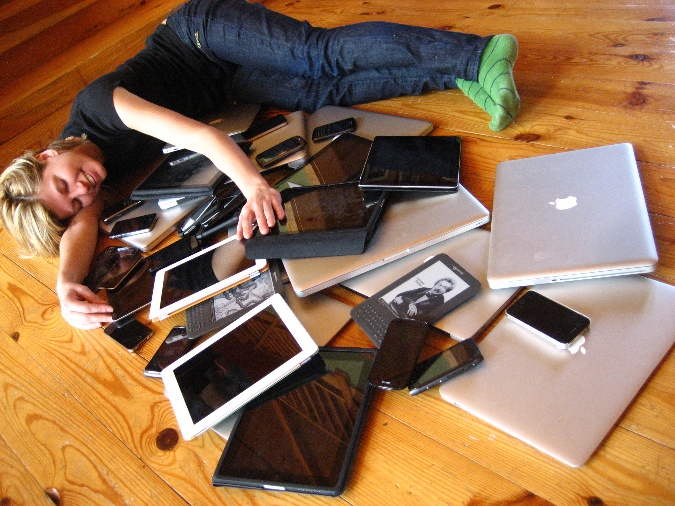 A woman cuddling a pile of digital devices: laptops, smartphones, tablets, ebook readers etc.